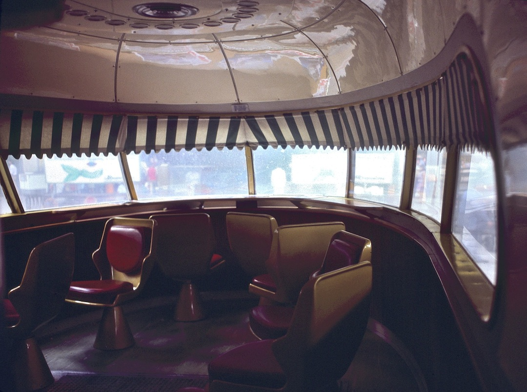 Interior of the lounge at the front (and rear) of the TEE Settebello, shortly after the train arrived at Milano Centrale station.